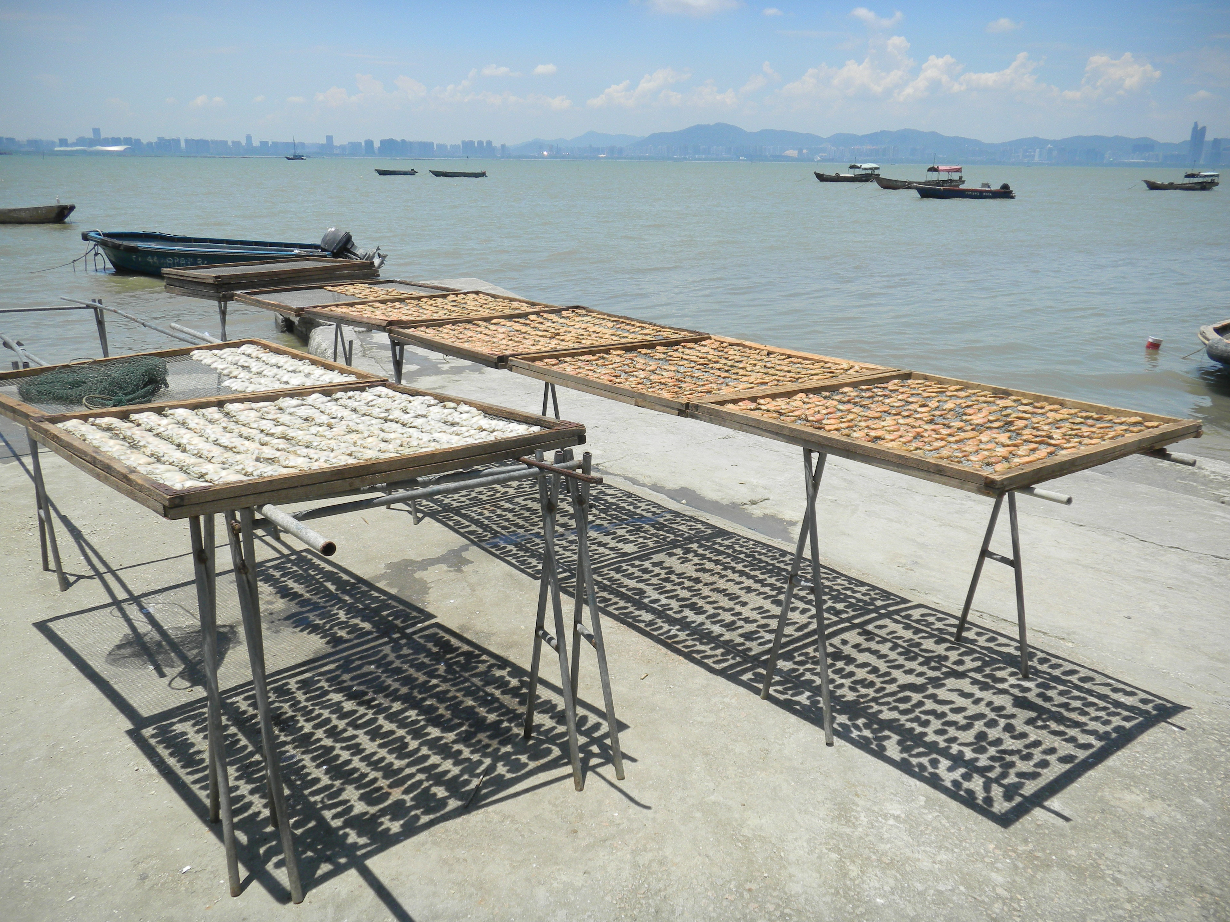 Sun dried oysters in Lau Fau Shanlooking towards Shenzhen